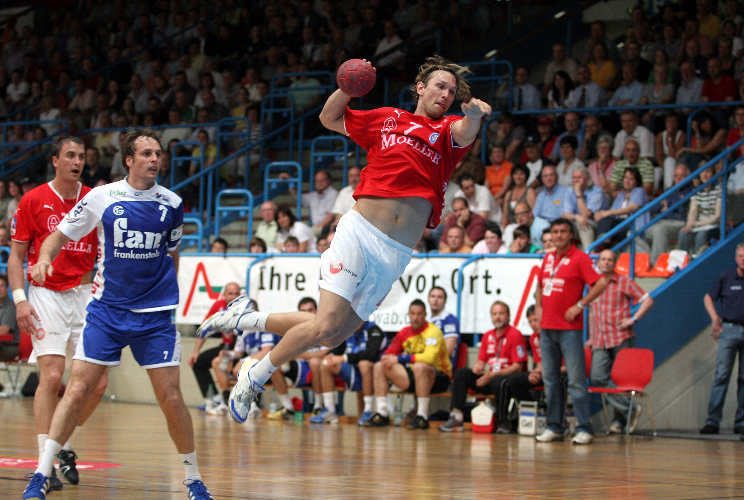 Kenneth Klev, Norwegian handball player